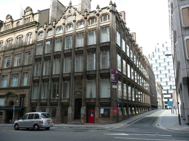 Oriel Chambers Built in 1864 and arguably the finest building in Liverpool with its projecting oriel windows to flood the office with light.